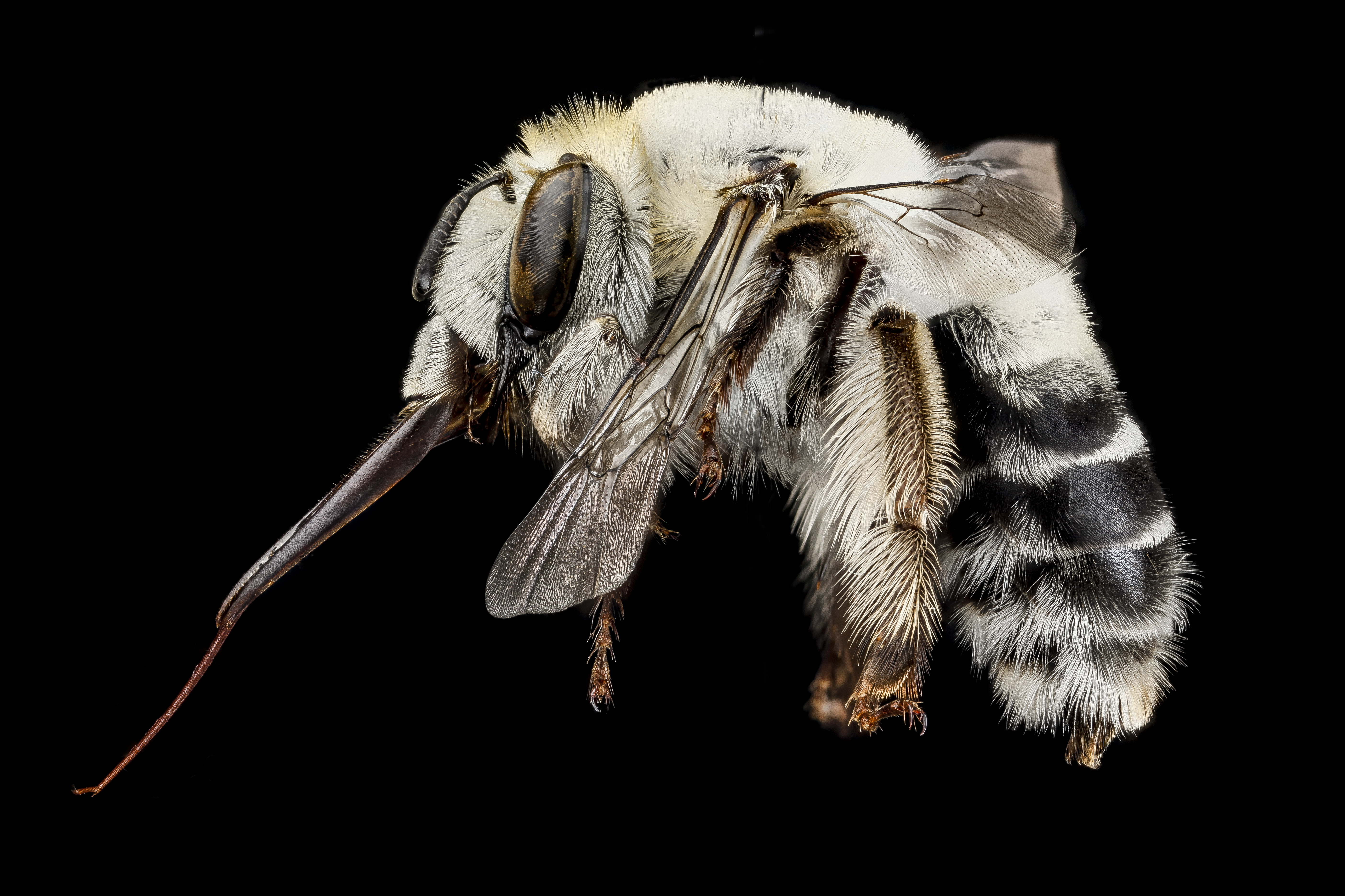 Anthophora affabilis, female. Badlands National Park, South Dakota